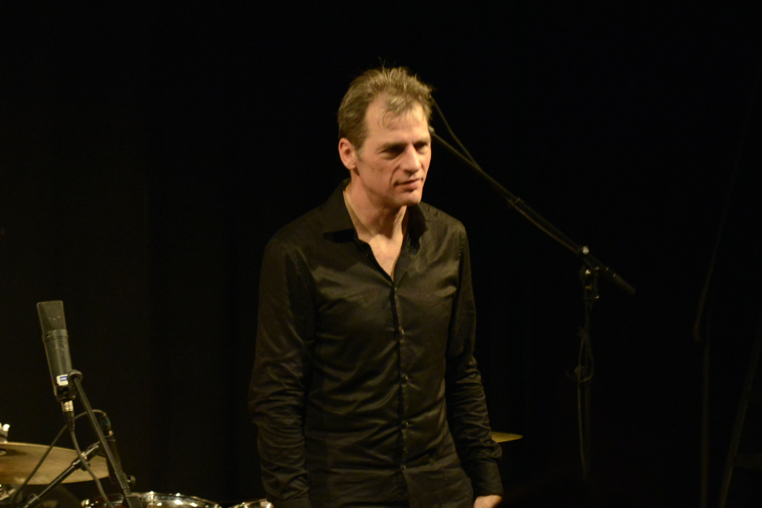 Louis Moutin, french Jazz drummer